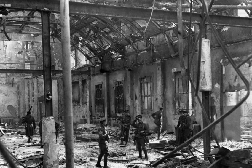 Dublin, April 1916 - Easter Rising- Ruins of the General post office with British soldiers